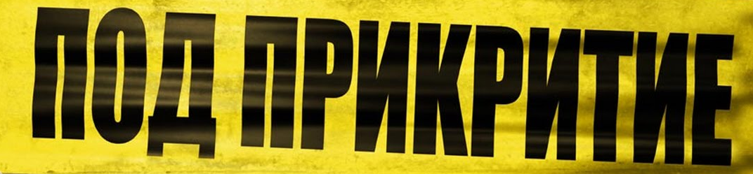 Visually close to the original logo of the tv-series "Под прикиритие" ("Pod Prikritie"; "Undercover")